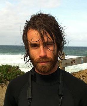 David Black